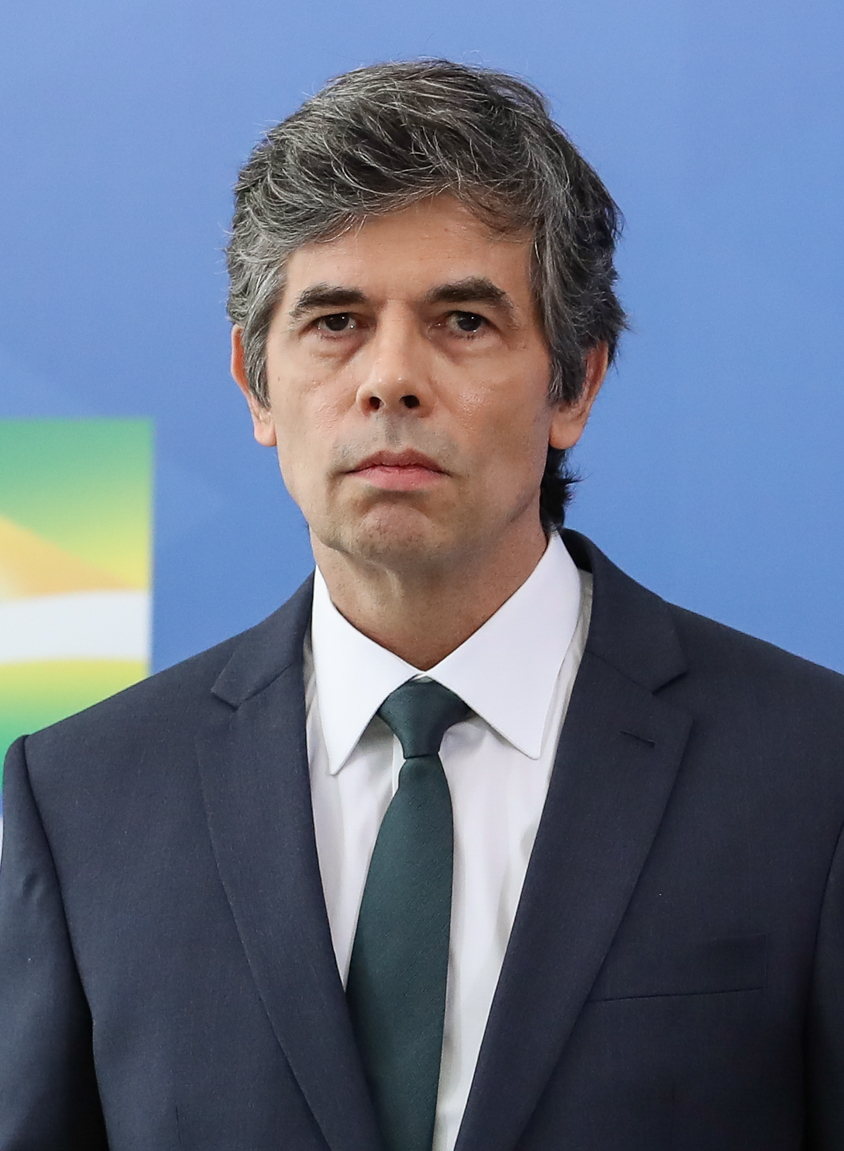 (Brasília - DF, 17/04/2020) Solenidade de Posse do senhor Nelson Luiz Sperle Teich, Ministro de Estado da Saúde. Foto: Marcos Corrêa/PR